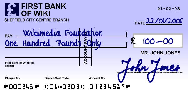 Cheque sample for a fictional bank in the United Kingdom. May also apply for other Commonwealth countries. Created by Sergio Ortega based on real cheque standards.